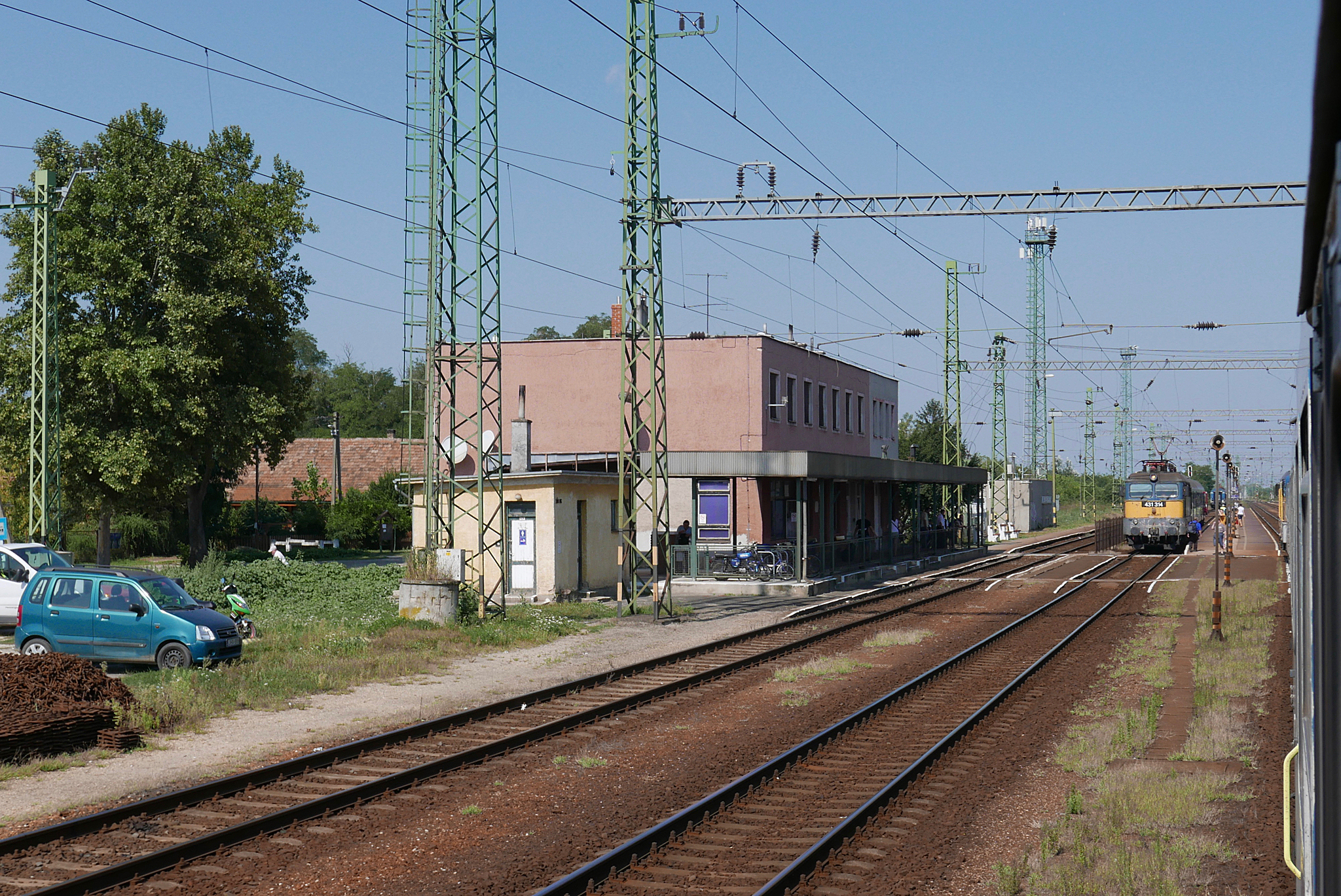 Boba train station.